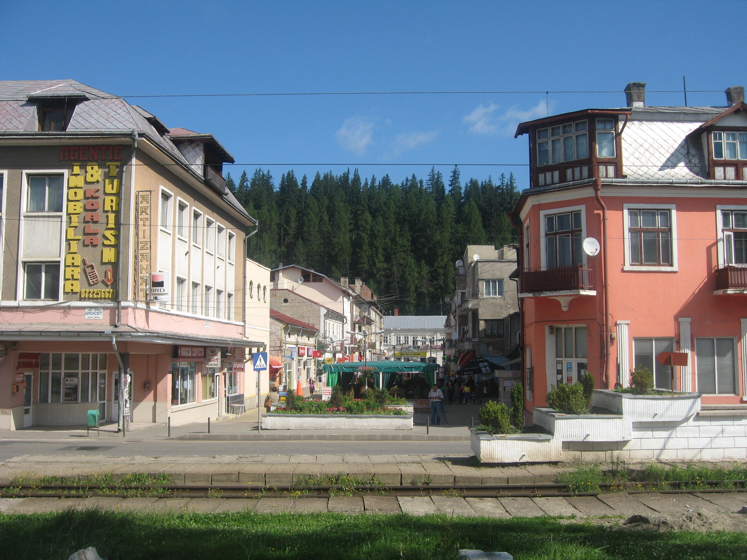 Vatra Dornei - Luceafărul Street